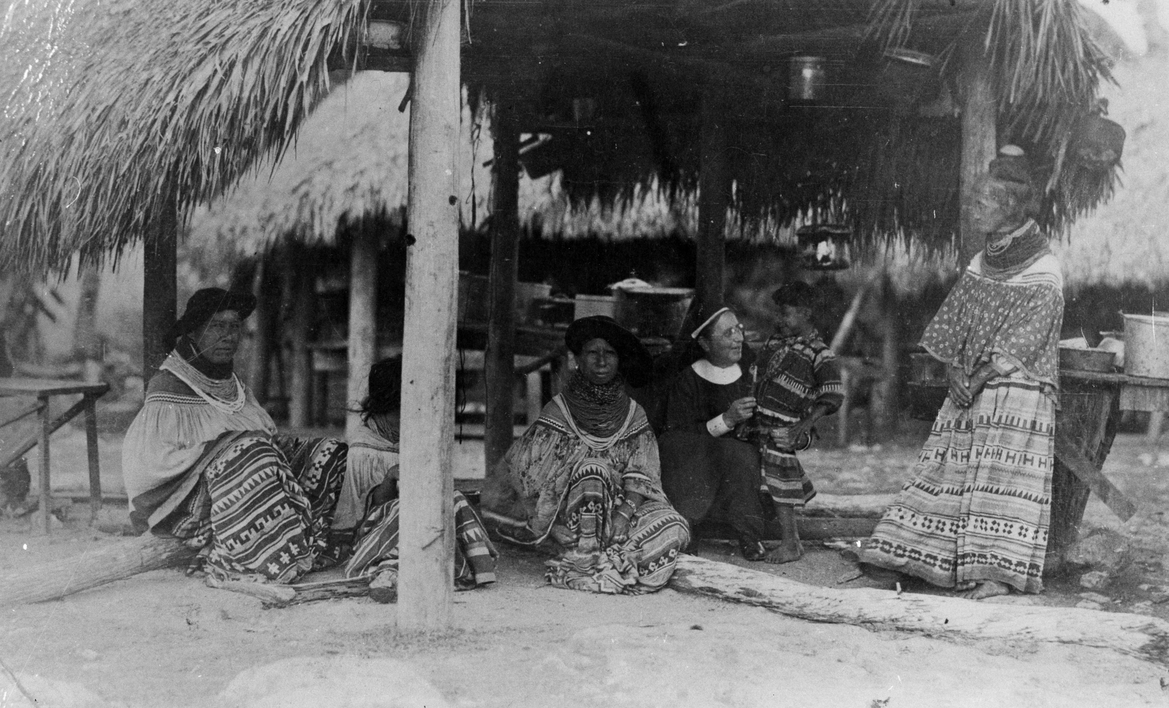 Local call number: BD010 Title: [Deaconess Bedell visiting the Clay family in the Everglades] Date/ place captured: Between 1933 and 1960 in Everglades City, Florida. Physical descrip: 1 photograph : b&w ; 5 x 7 in. Series Title: (Bedell Collection.) General Note: Sitting uder a cooking chickee L-R: Lillian Stone Bowers, ?, ?, Deaconess Bedell, ?, ?. Repository: 500 S. Bronough St., Tallahassee, FL 32399-0250 USA. Contact: 850-245-6700. Persistent URL